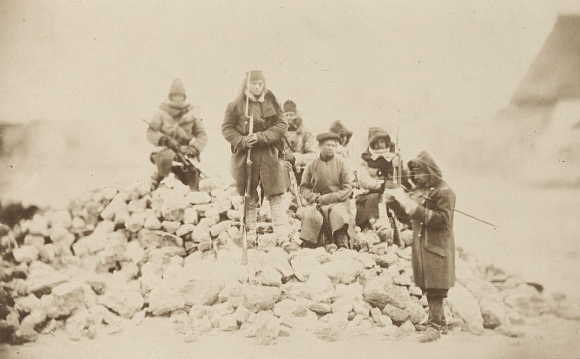 Russian prisoner after the battle of Kinburn (1855)